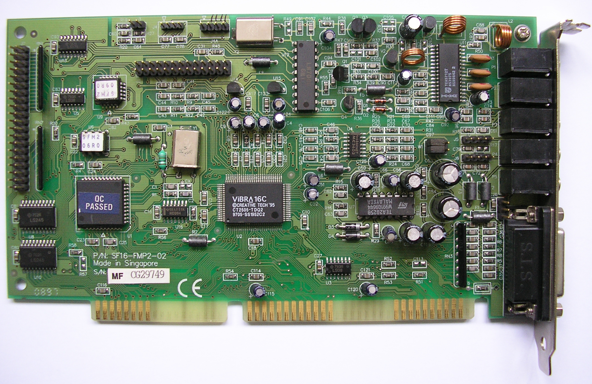 Manufacturer: MediaForte Product name: SoundForte RadioPlus SF16-FMP2 RadioPlus SF16-FMP2 is a soundcard with FM radio. The audio part based on Creative Vibra16C audio chip. Home page of the manufacturer (on Internet Archive)